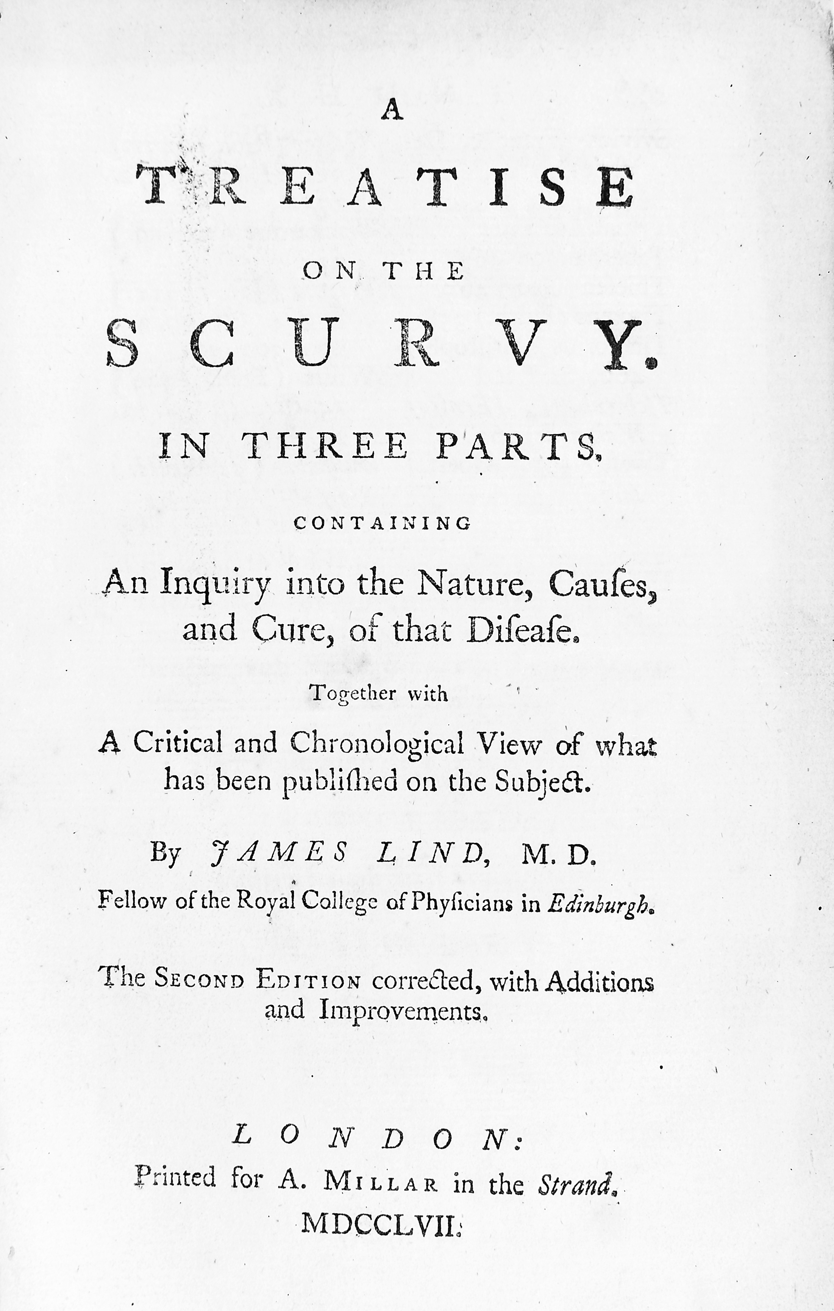 Title page Rare Books Keywords: James Lind; naval and military medicine